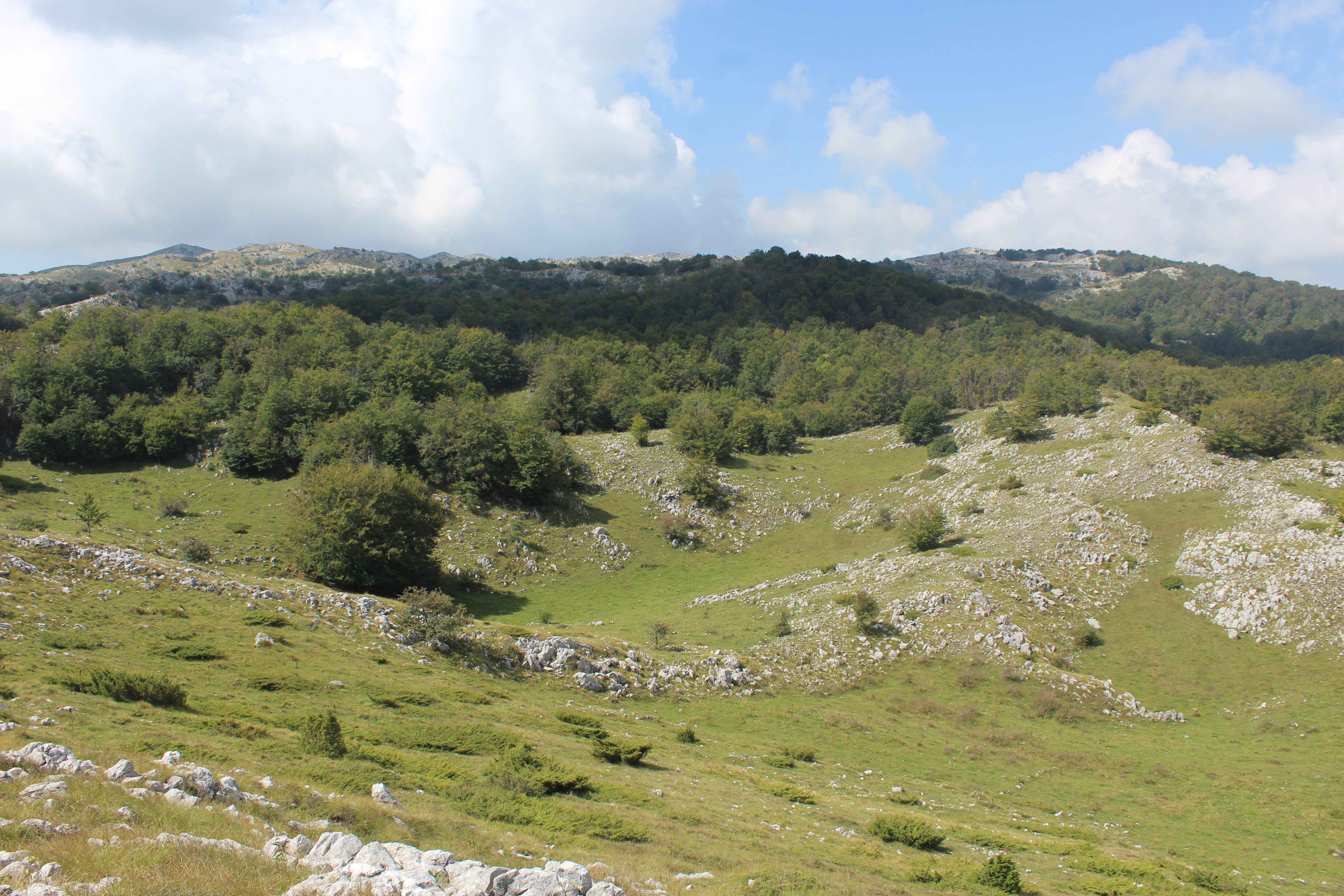 Karst formations (depressions) of a Suva mountain. Srpski (latinica): Kraški reljef (udubljenja) Suve planine.